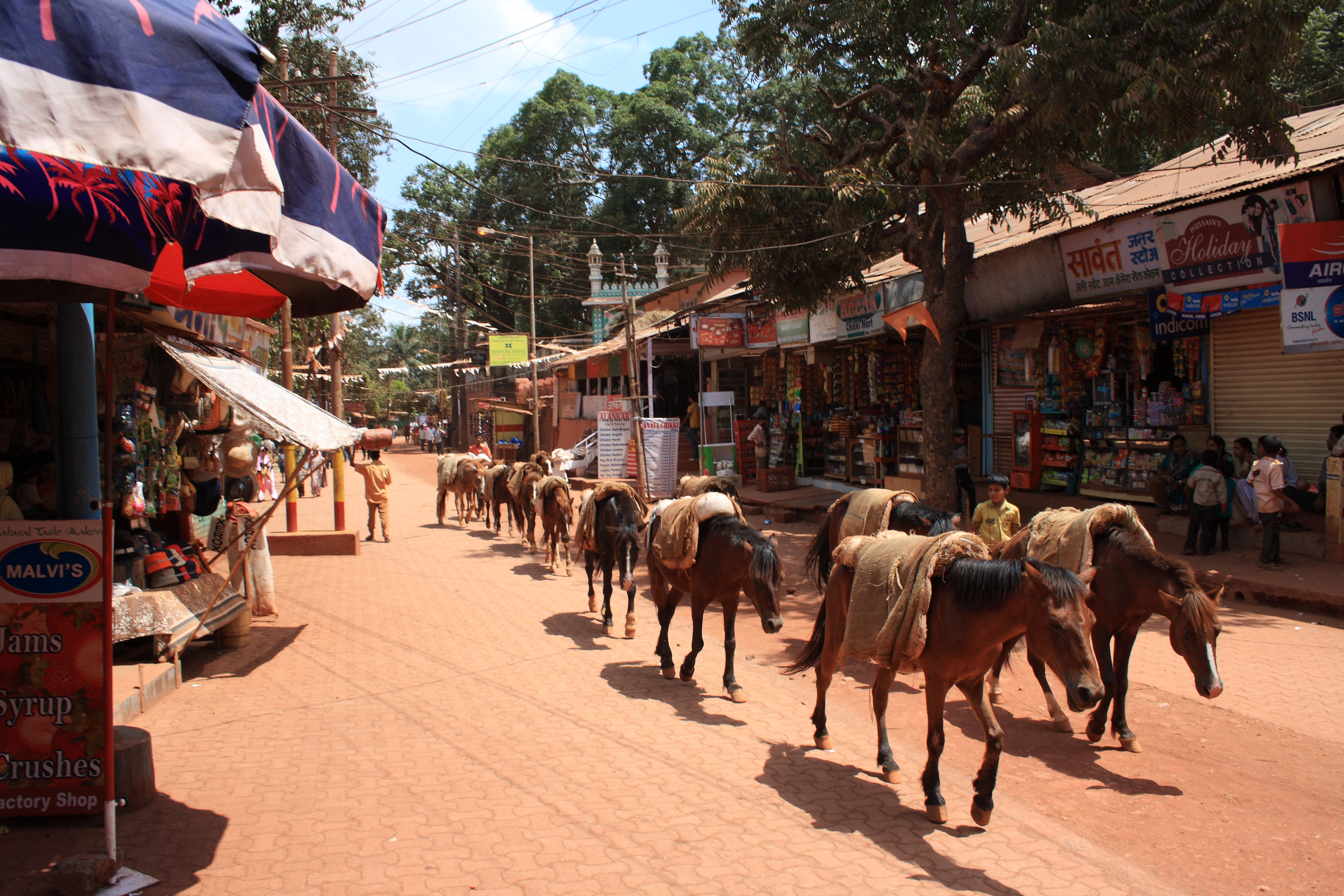 MG Road in Matheran. As Matheran is a car free town, horses are an important mean of transport.